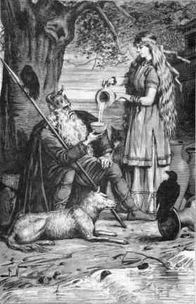 An illustration from Fredrik Sander's 1893 Swedish edition of the Poetic Edda.